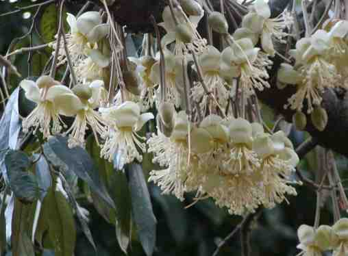 White durian flowers in the night darkness.